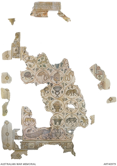 Shellal Mosaic. It was excavated by Rev William Maitland Woods.